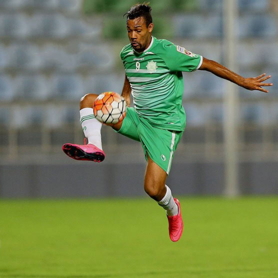 Lyle Peters in action for Al-Oruba SC in a match against Dhofar Club. Al-Seeb Stadium, Muscat, Oman 23 October 2015 Photographer email id